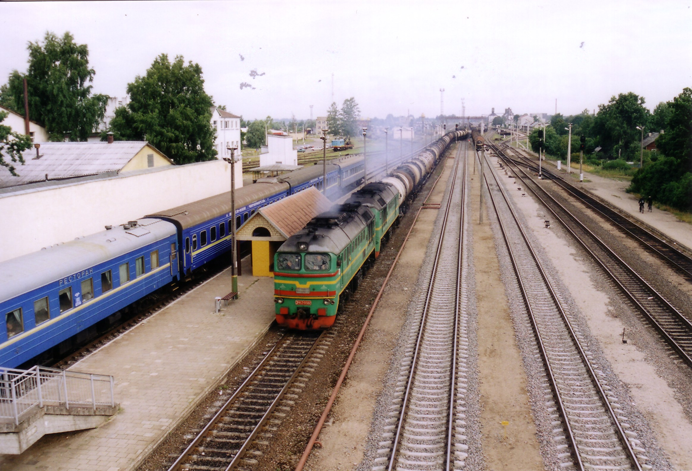 Goodstrain headed by 2M62 in Radviliškis. On the left track the Dzherelo hotel train.